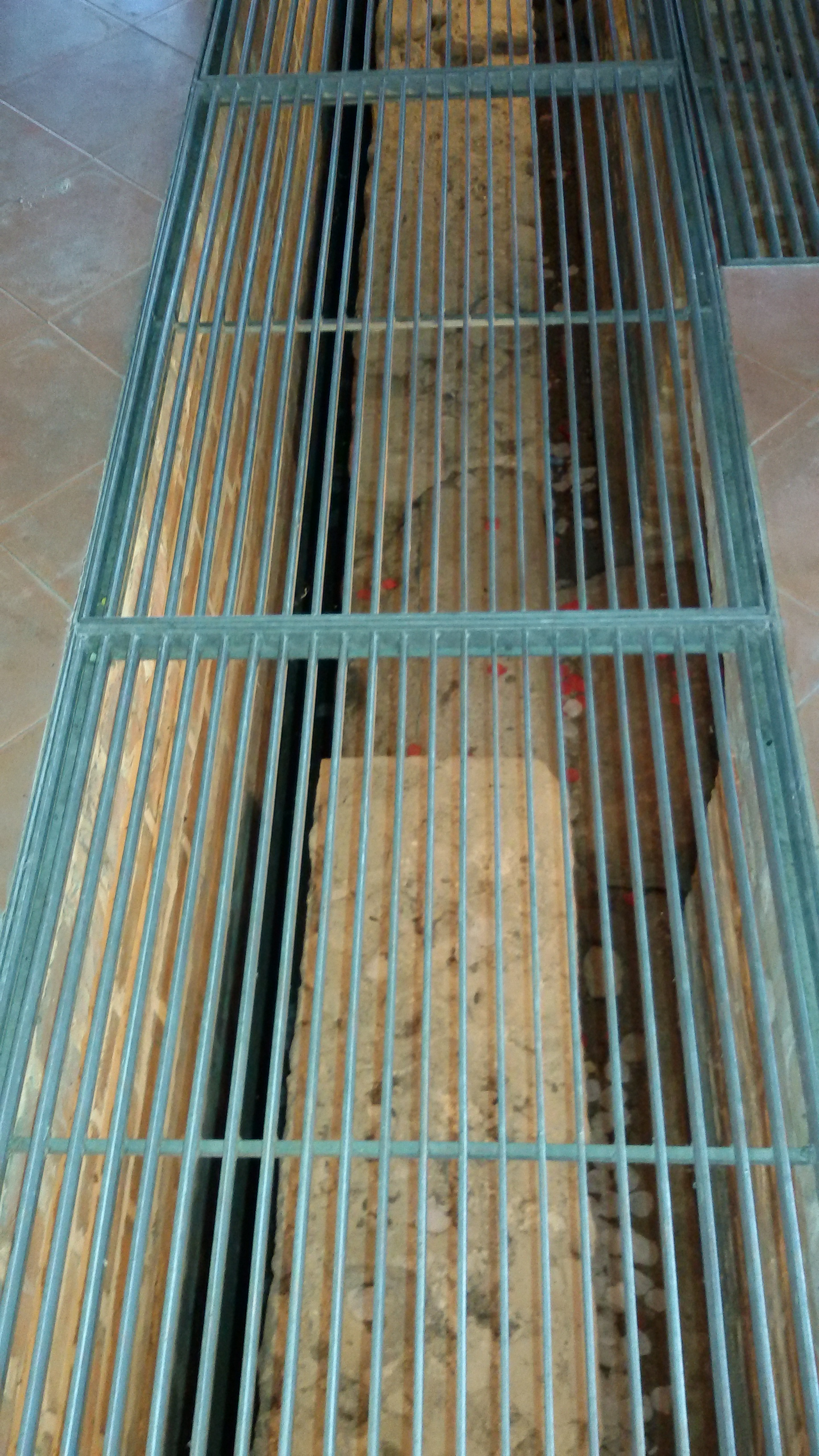 San Genesio Curch San Secondo